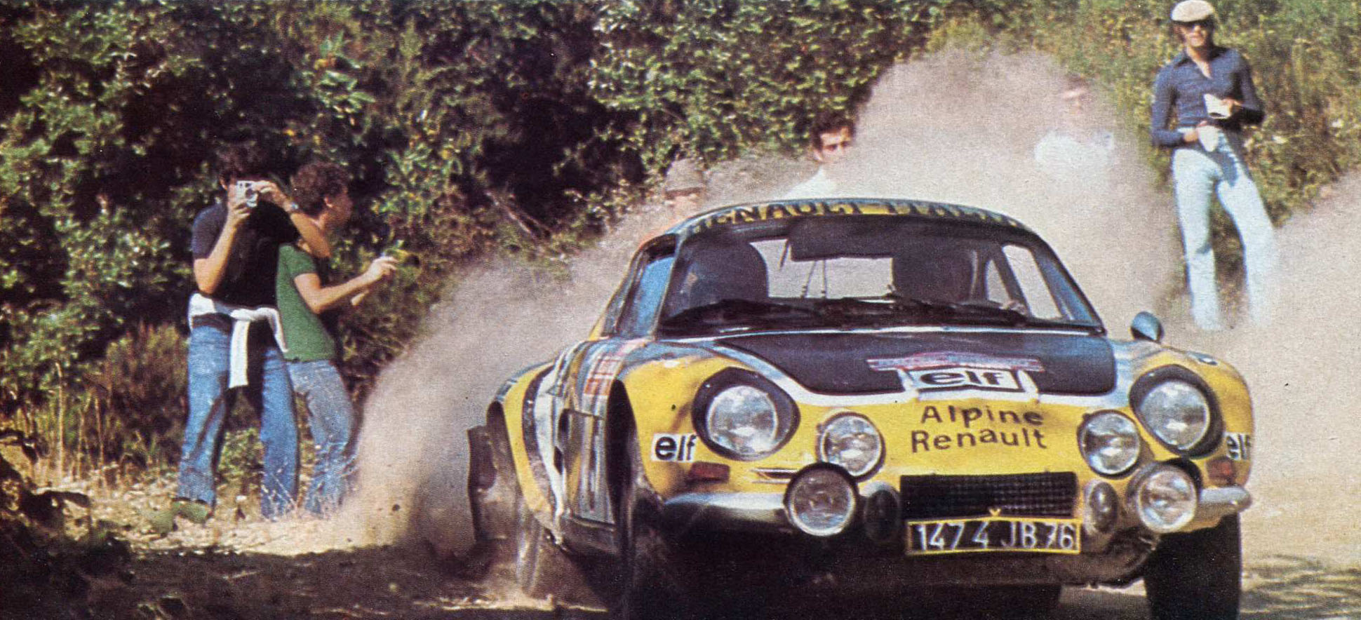 Jean-Luc Thérier and co-driver Michel Vial on an Alpine-Renault A110 1800 (Group 4) at the 1975 Rallye Sanremo.